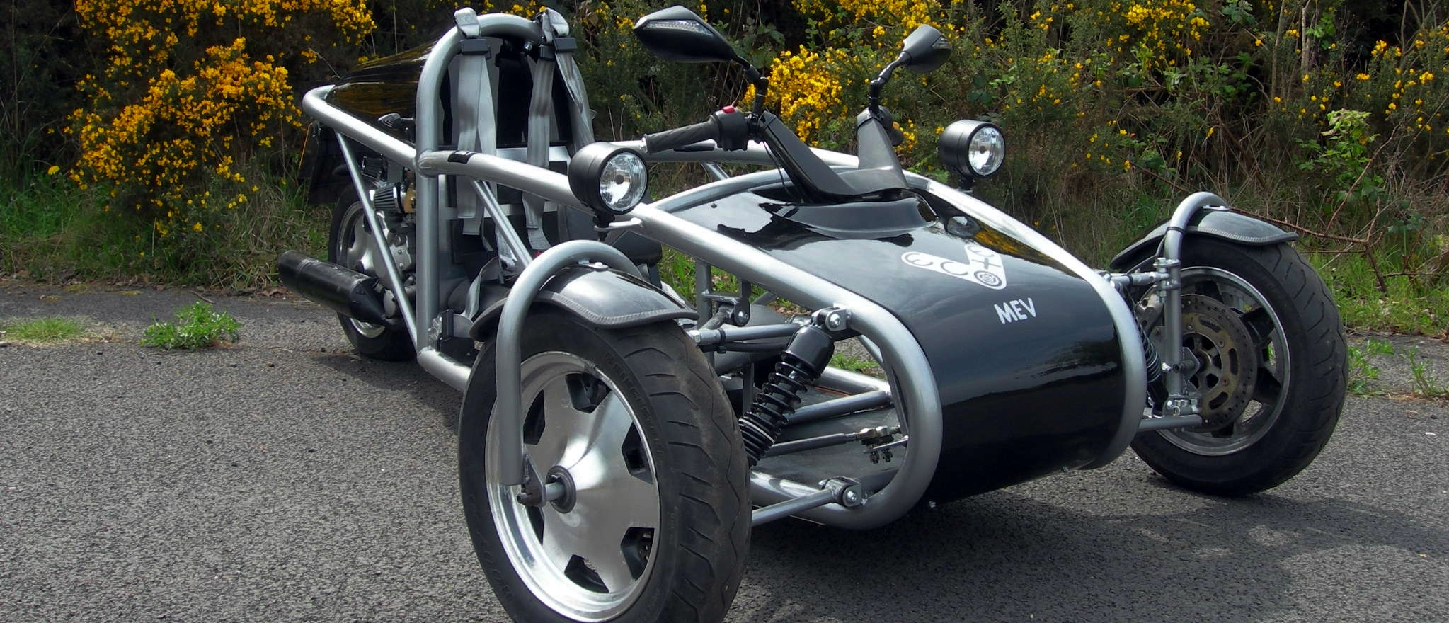 front three-quarter view of MEV Eco-exo